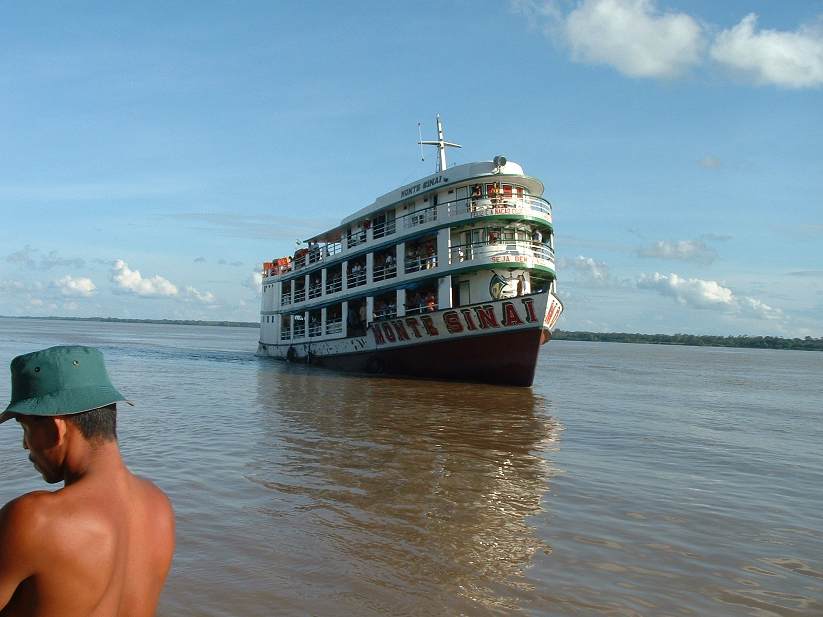 Regional ship on the amazon river